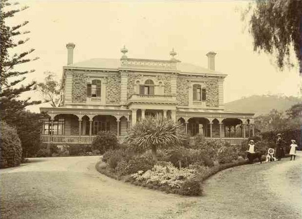 Glen Osmond: "Benacre" Benacre house (without land) is at 6 Benacre Close, off Glen Osmond Rd between Fisher St and Fergusson Ave. 1844 a single-storeyed house was built by G.F. Shipster after the subdivision of section 270 by the main road it passed to Robert Cock. 1846 Purchased on 16 acres by William Bickford who planted the first garden and built a portion of the residence. The next owner was T.B. Strangways, followed by Thomas Graves, who had the grounds replanted as a shrubbery and built 'the present two-storey house.' mid-1870's: Henry Scott, Mayor of Adelaide. During Scott’s tenure of some 30 years, he hosted countless social events. 1906-1923 John Lewis At the death of Hon. John Lewis the property was subdivided into 39 building blocks. 1924-1968 Gretta Lewis ... 1970 Further subdivision: Benacre subdivision [fifteen magnificent residential allotments, the gracious mansion 'Benacre', two storeyed stone mews, to be sold by auction on the estate 2nd May, 1970 at 10.30 a.m.] Adelaide : Matters & Co. Pty. Ltd. [and] Theodore Bruce & Co. Pty. Ltd. ...